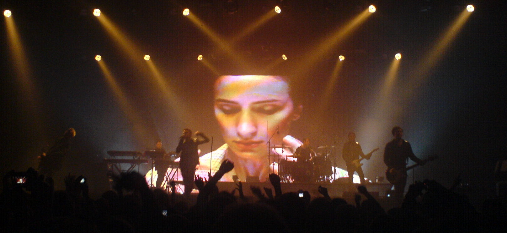 Kent concert in Halmstad, Sweden. 2008-02-21